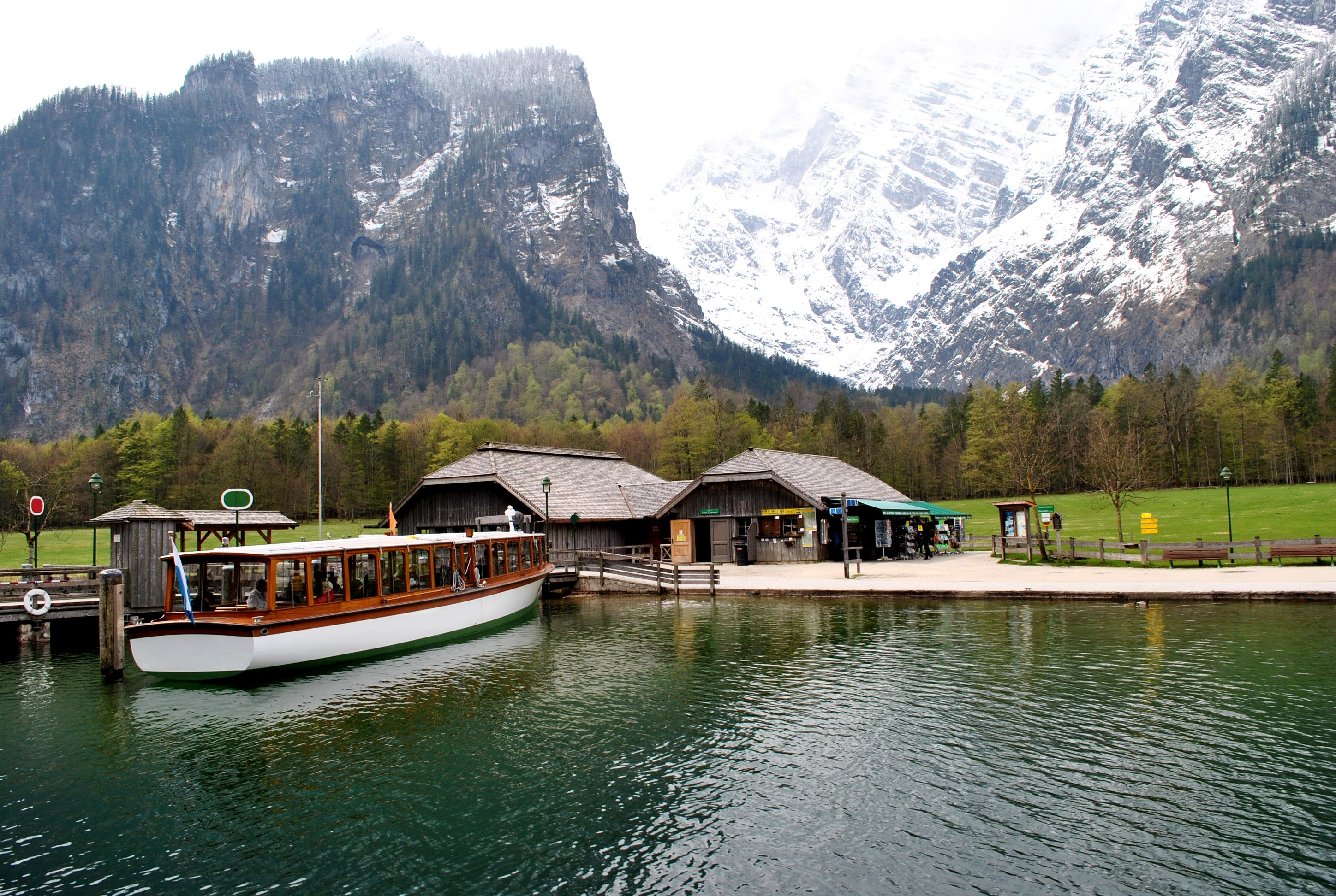 Konigssee small boat harbour.